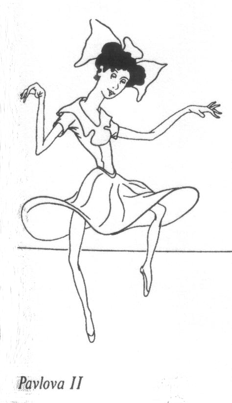 Caricature of Anna Pavlova